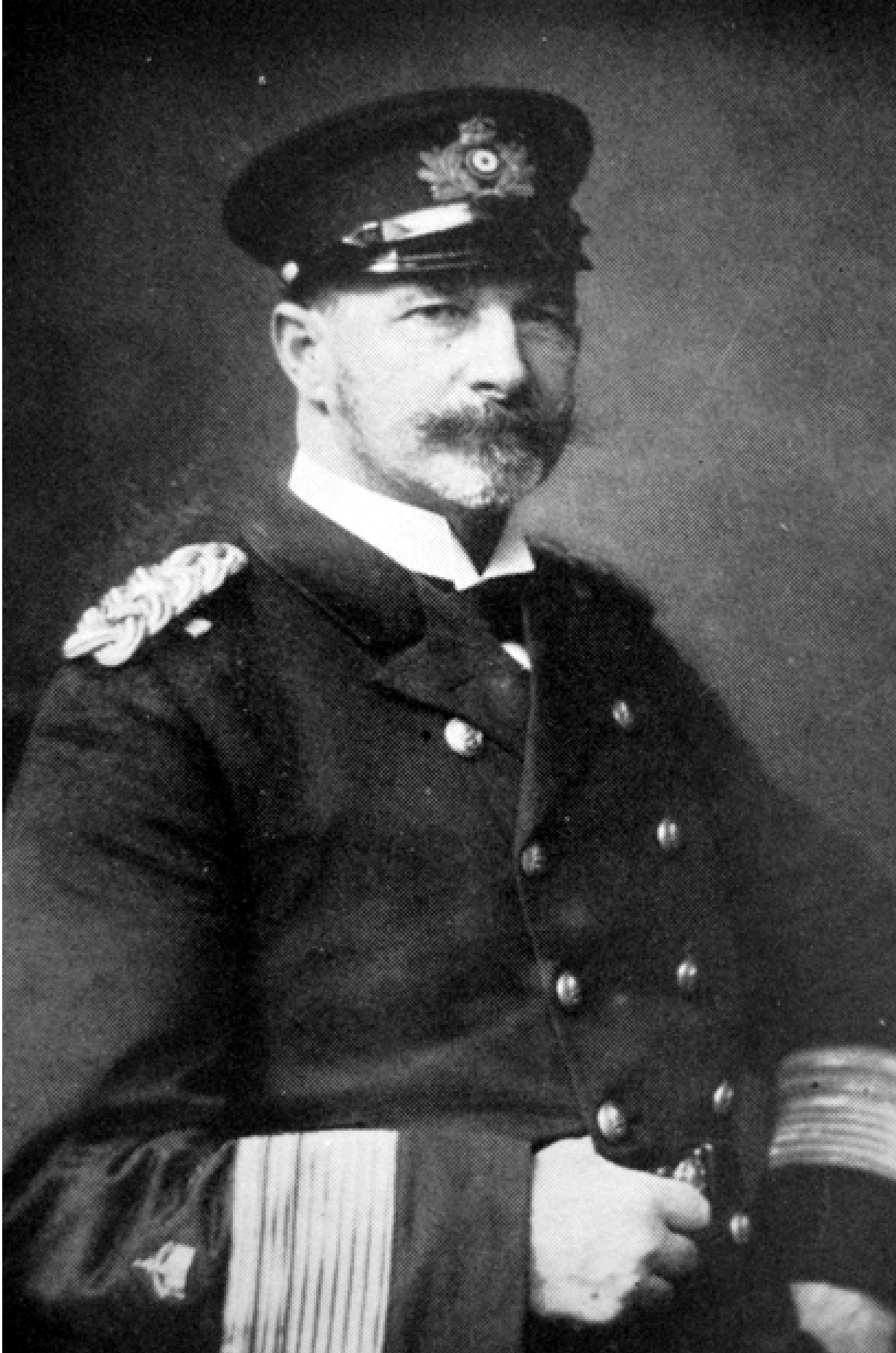 Hugo Zeye as vice admiral (prior to Dec 1909).